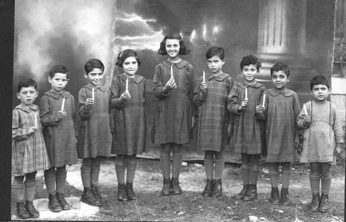 Religion in Israel